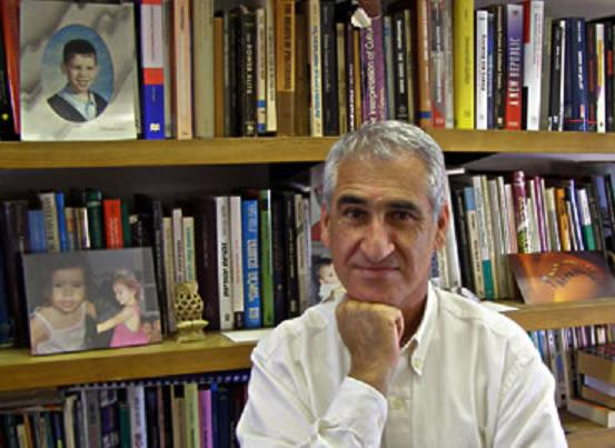 shaul mishal picture